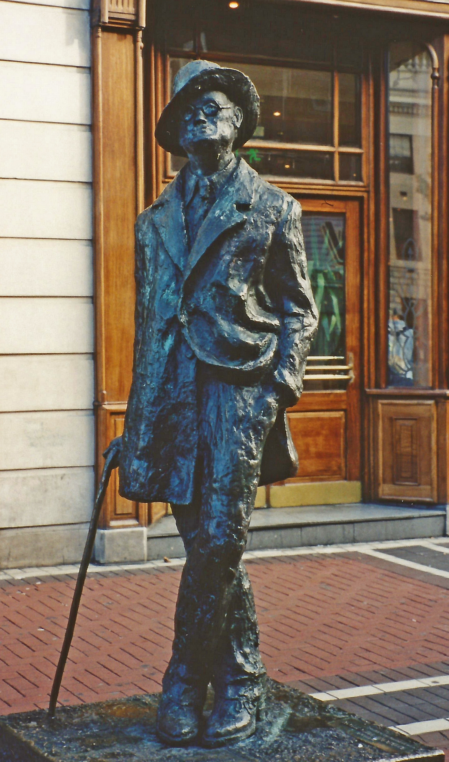 Statue of Joyce on Earl Street North, off O'Connell Street. Taken Sept 1998 and scanned at 600dpi Jan 2019